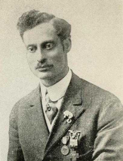 William Nauns Ricks, American poet and veteran of the Spanish–American War, as he appeared in The Negro Trail Blazers of California, a 1919 biographical dictionary of eminent African Americans by Delilah Beasley.